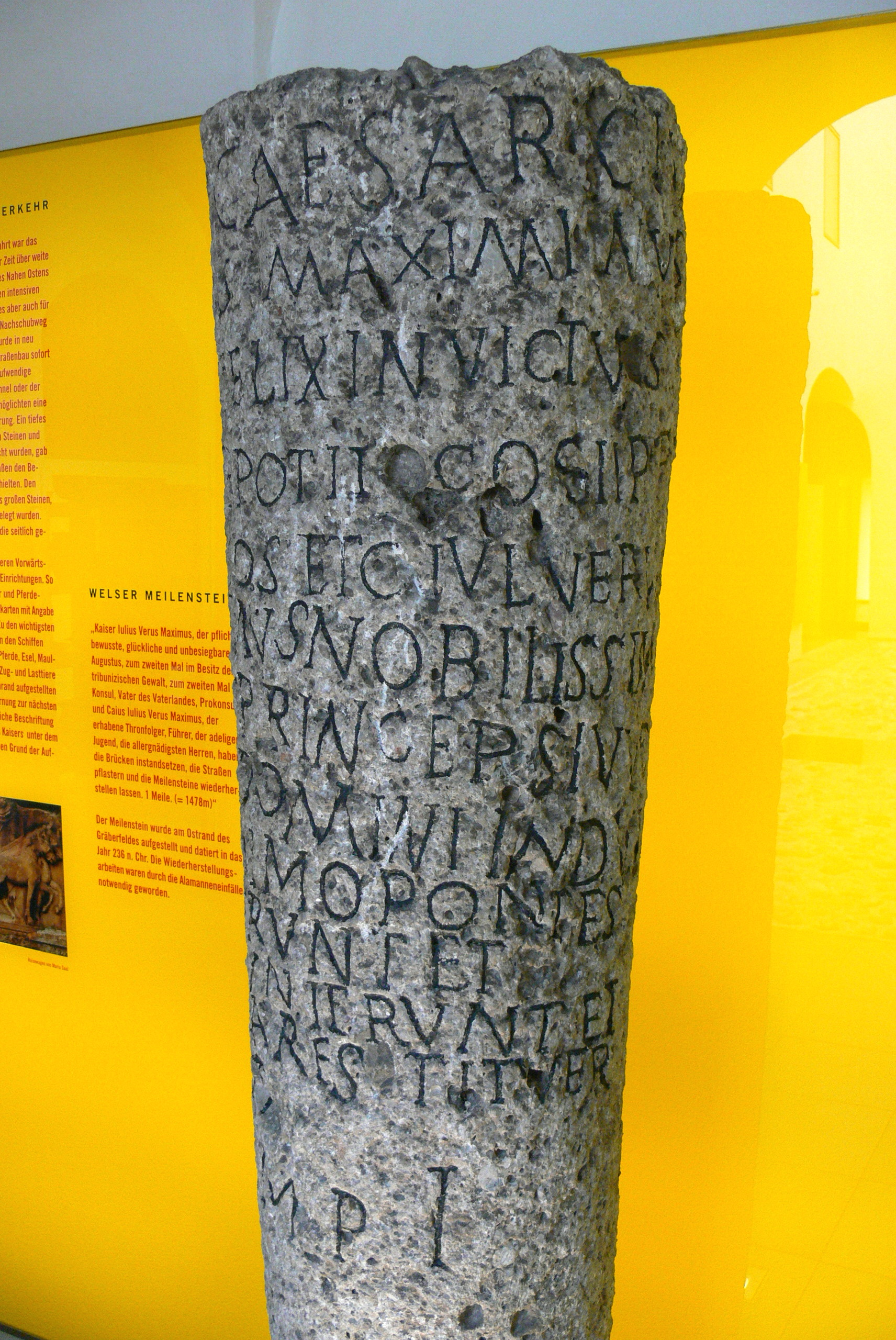 Wels (Upper Austria). City Museum Minoritenkloster - Roman department: Milestone, set in 236 AD in Ovilava ( Wels ) by order of Roman emperor Maximinus Thrax and his son Gaius Julius Verus Maximus.